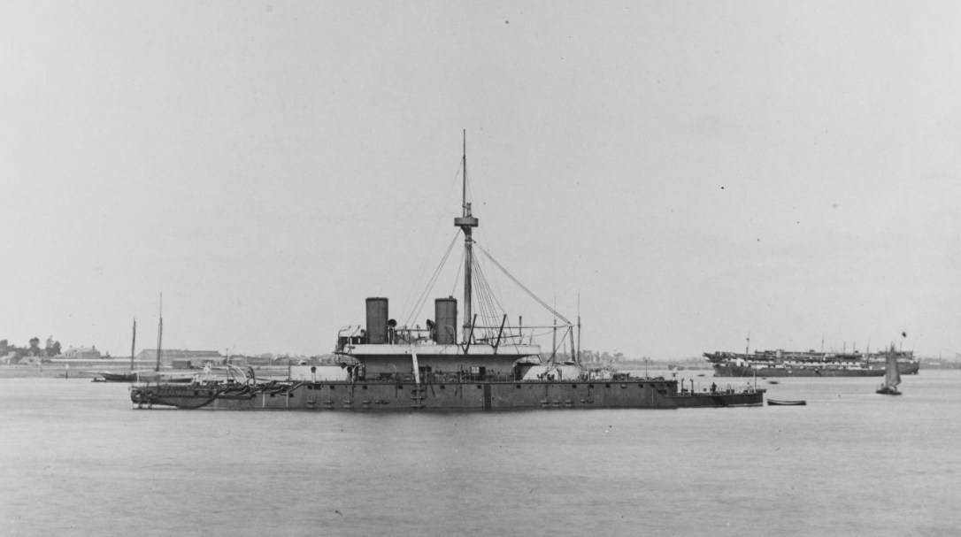 HMS Thunderer at anchor prior to 1879